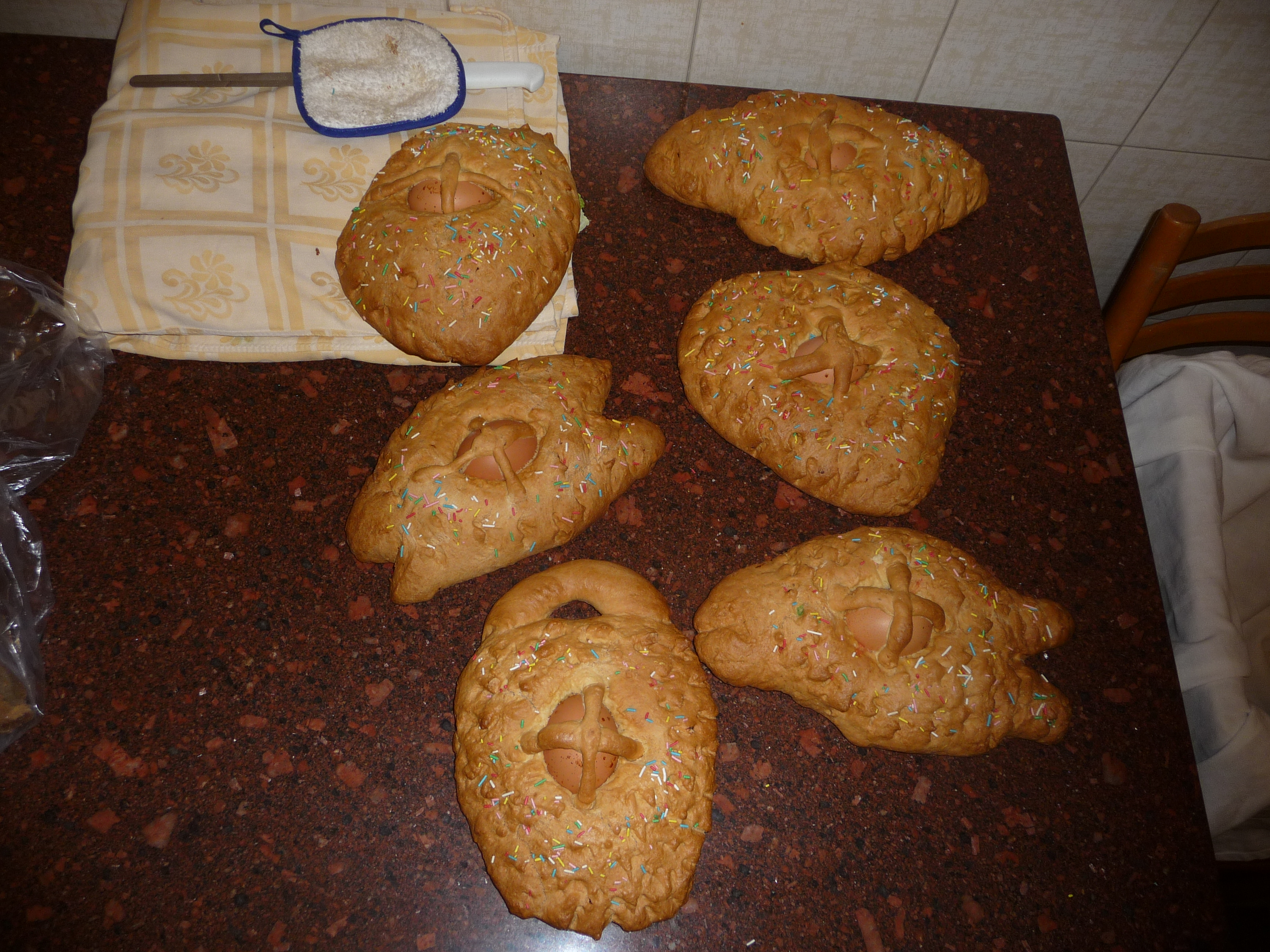 Cuzzupas